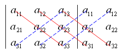 Sarrus Rule of solving determinants by adding columns